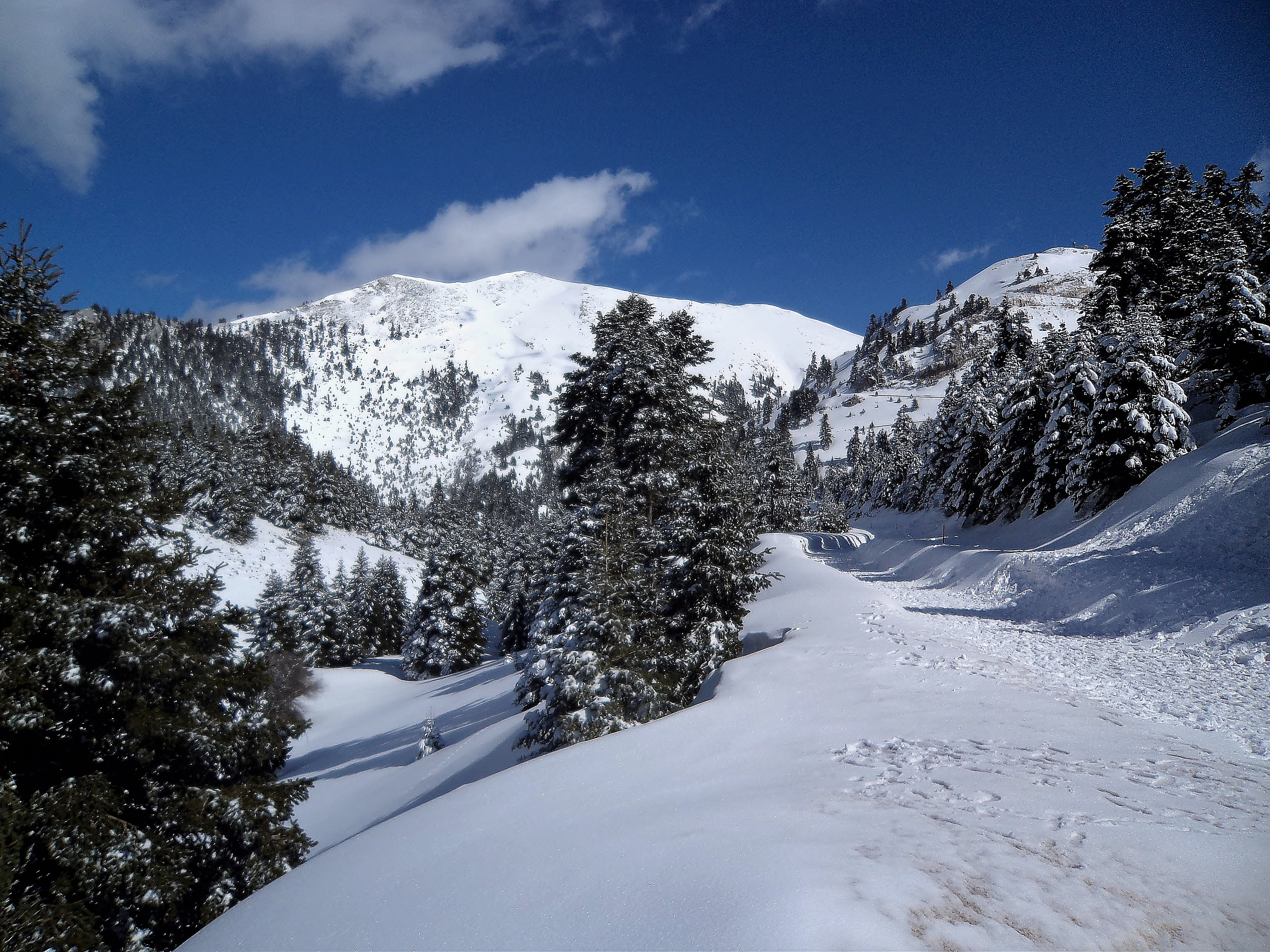 This is a photography of Natura 2000 protected area with ID GR2410002